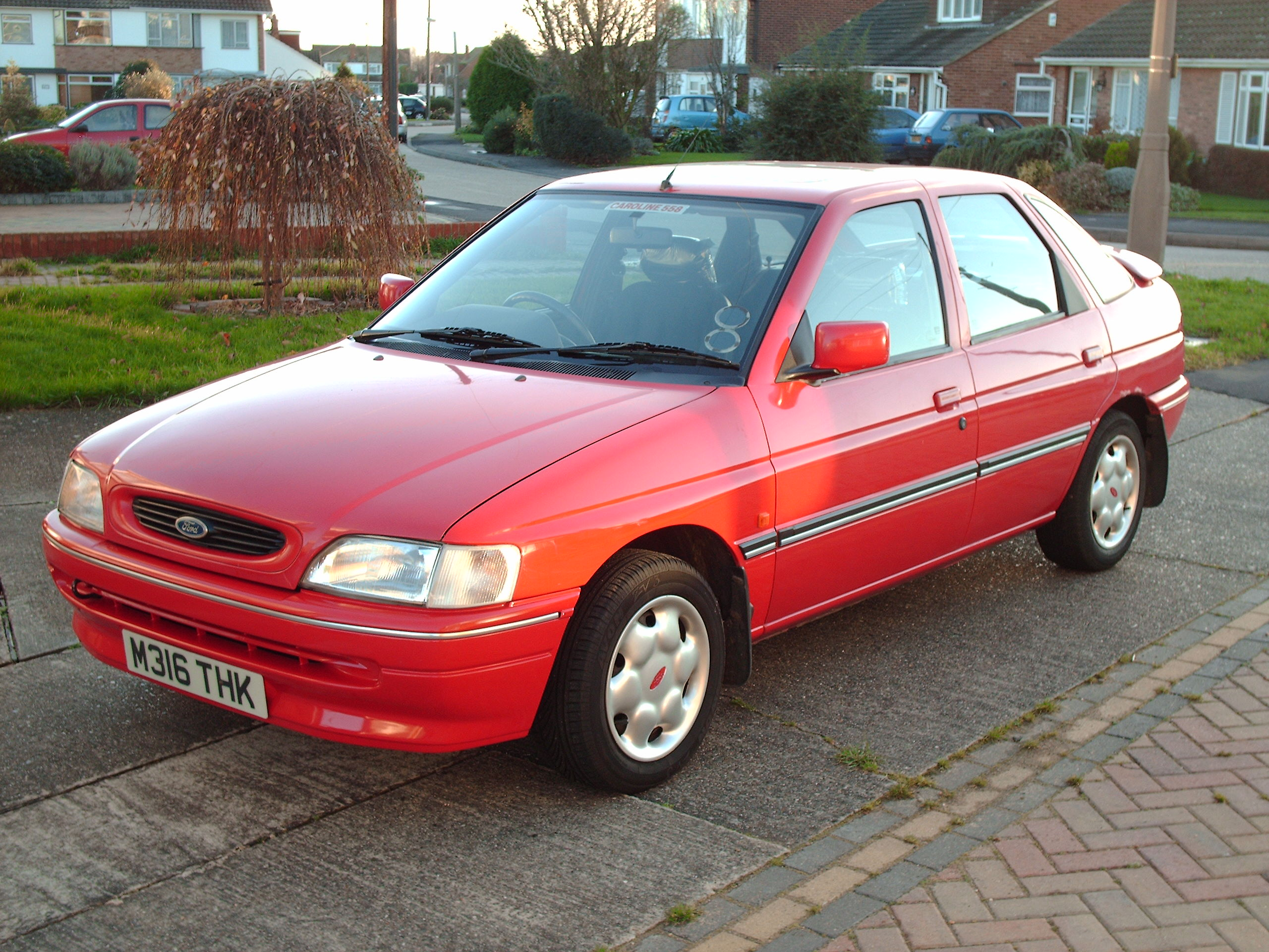 Ford Escort Mk5b